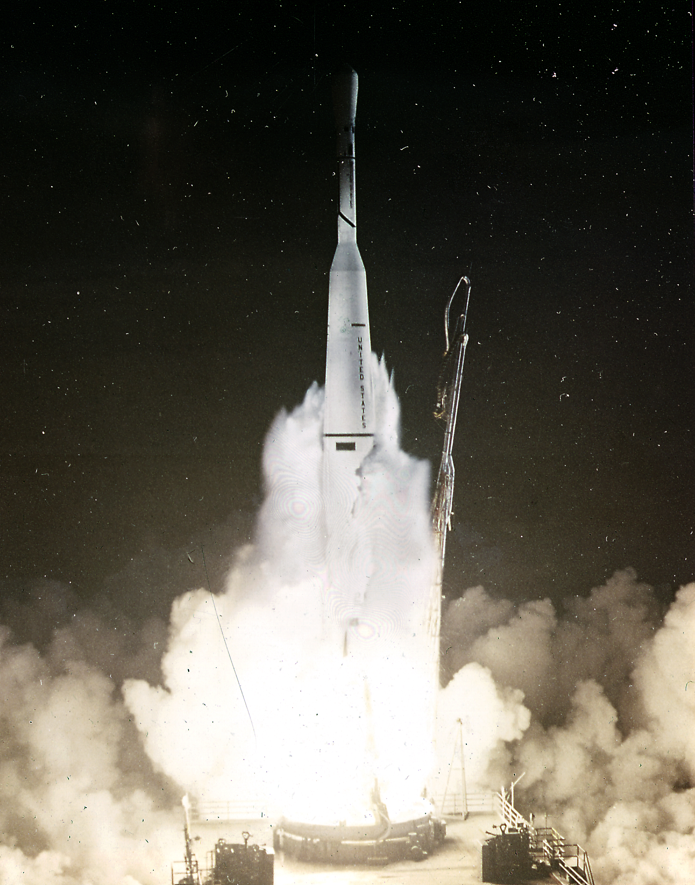 Night launch of Thor-Delta-5 rocket with TIROS 3 satellite (Television Infrared Observation Satellite) on July 12, 1961.